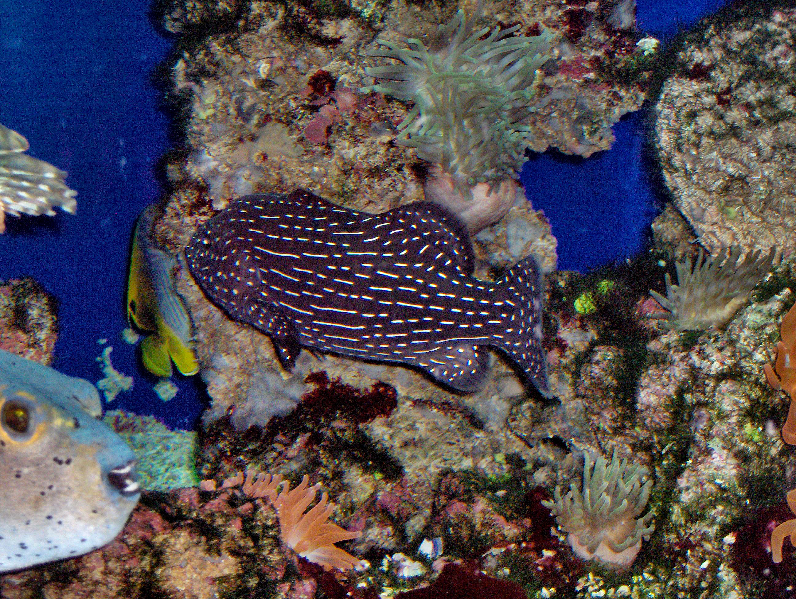 Golden-striped Grouper (Grammistes sexlineatus), adult specimen with dotted lines; Musée Océanographique de Monaco